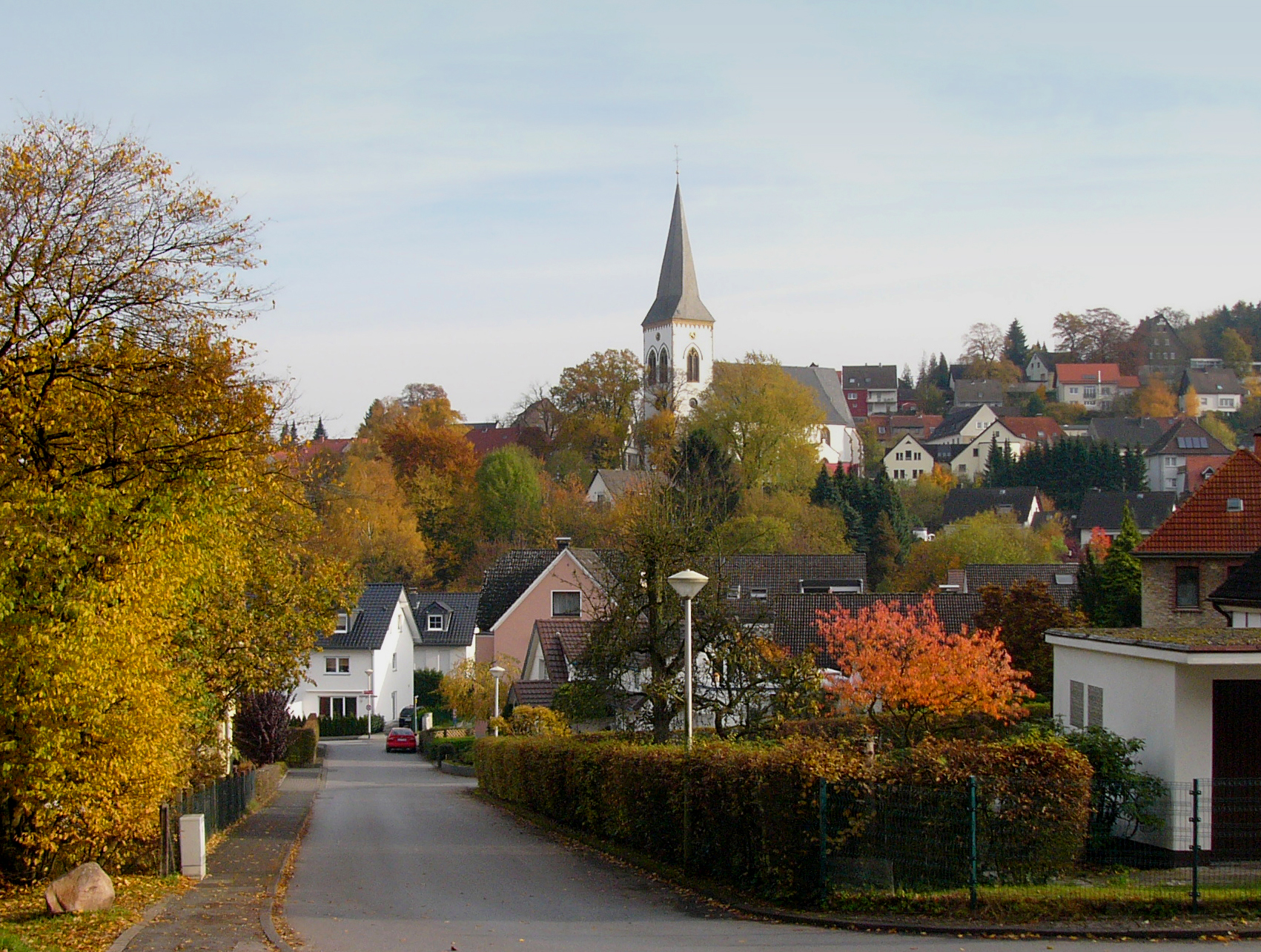 View to Oerlinghausen, Germany